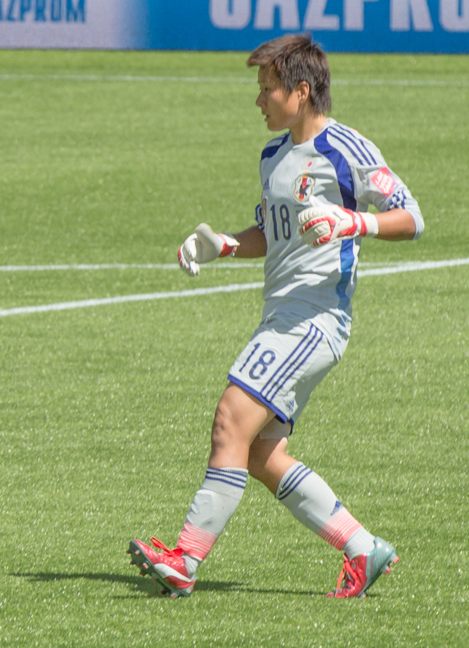 The 2015 FIFA Women's World Cup is the seventh FIFA Women's World Cup, the quadrennial international women's football world championship tournament. The tournament will be held from 6 June to 5 July 2015. Japan vs Australia Match Highlights